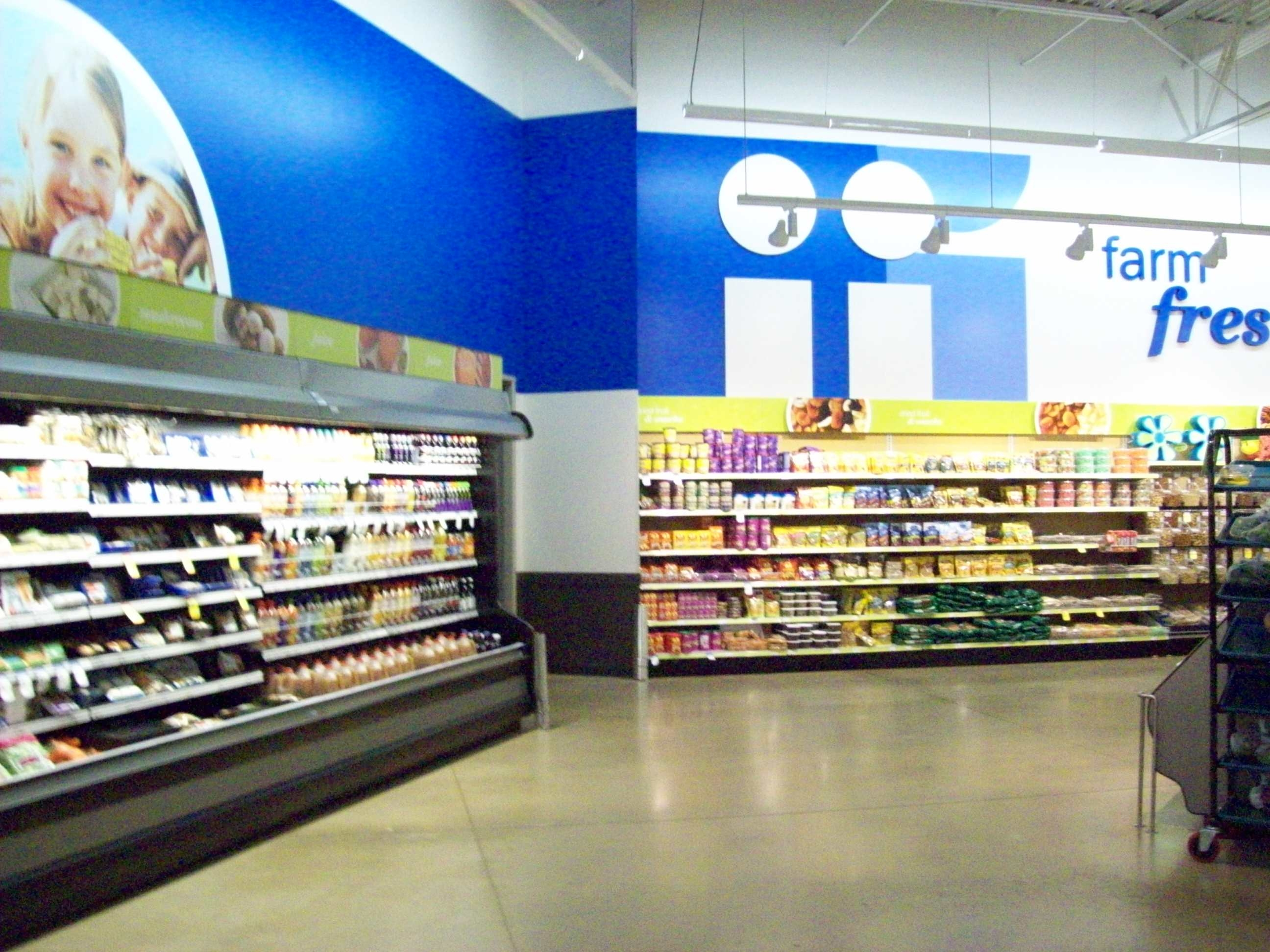 Newer Meijer in Cedar Springs, Michigan.